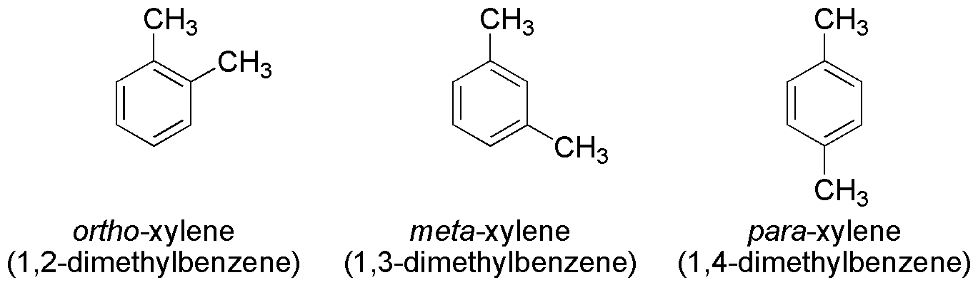 Chemical structures of ortho-, meta-, and para-xylenes.